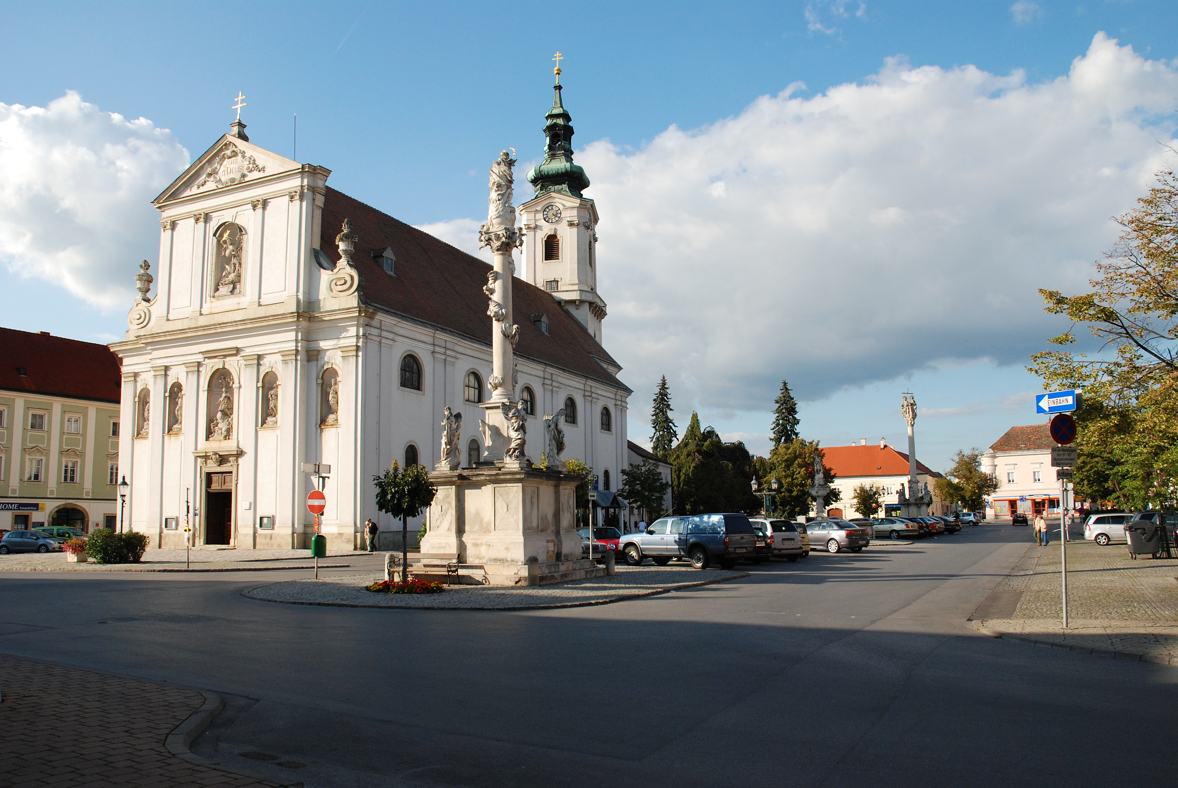 Main square of Bruck an der Leitha with church. In the foreground stands the column of Virgin Mary.